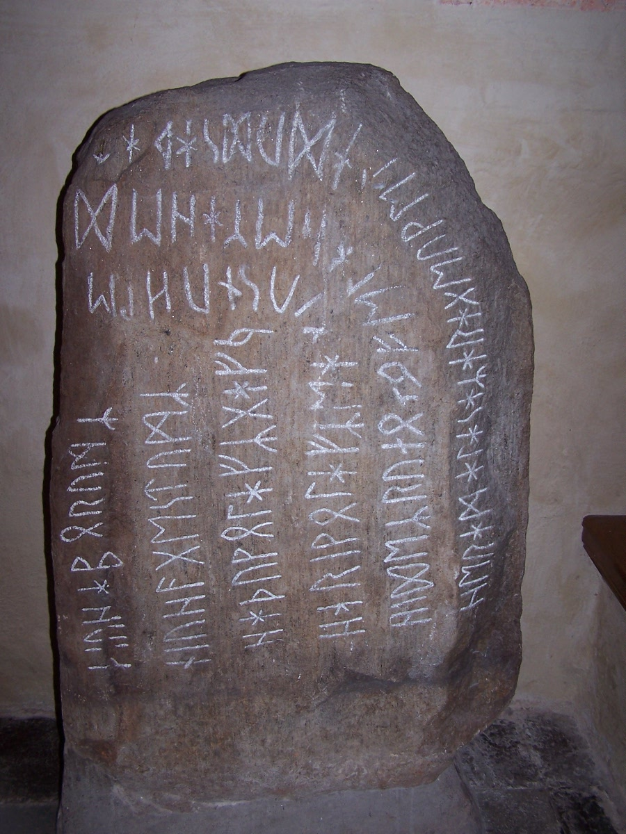 Stentoftastenen, today exhibited in Sankt Nicolai church, Sölvesborg.